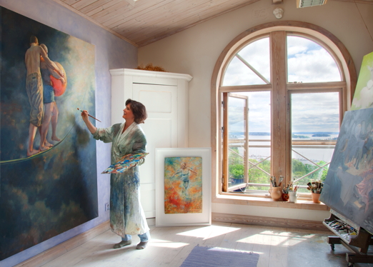 Anna Toresdotter in her studio, Akersberga, Sweden.